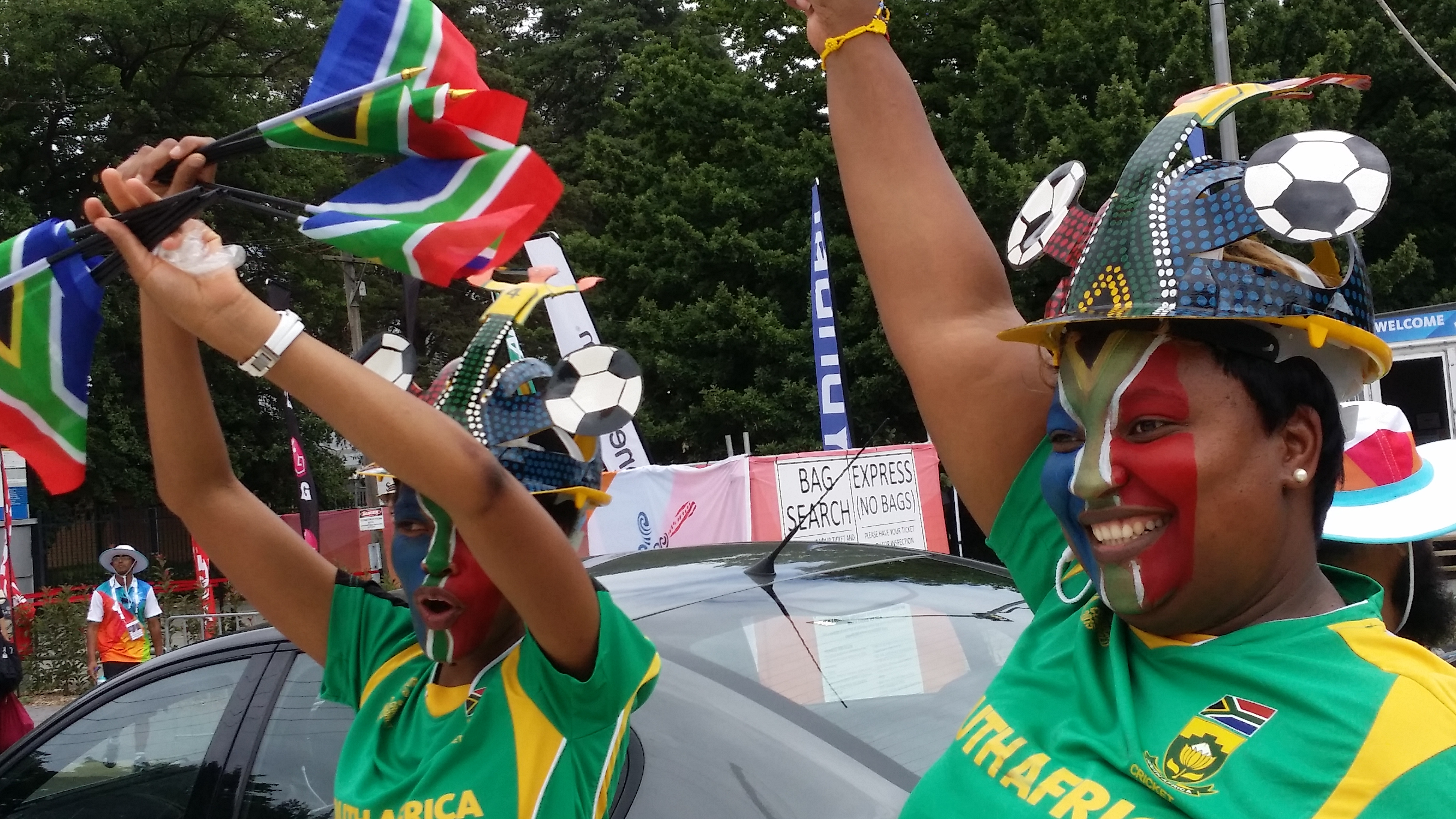 South African supporters at Cricket World cup